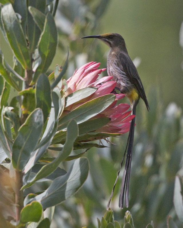 Cape Sugarbird Promerops cafer 4th. October 2009 Moore's End, A proteus farm in Stellenboch, South Africa Distribution: 690V5376